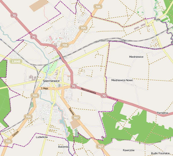 Location map of Skierniewice, Poland This map of Skierniewice was created from OpenStreetMap project data, collected by the community. This map may be incomplete, and may contain errors. Don't rely solely on it for navigation. Border coordinates51.99420.105←↕→20.23351.923